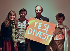 Divestment activists with Bob Brown